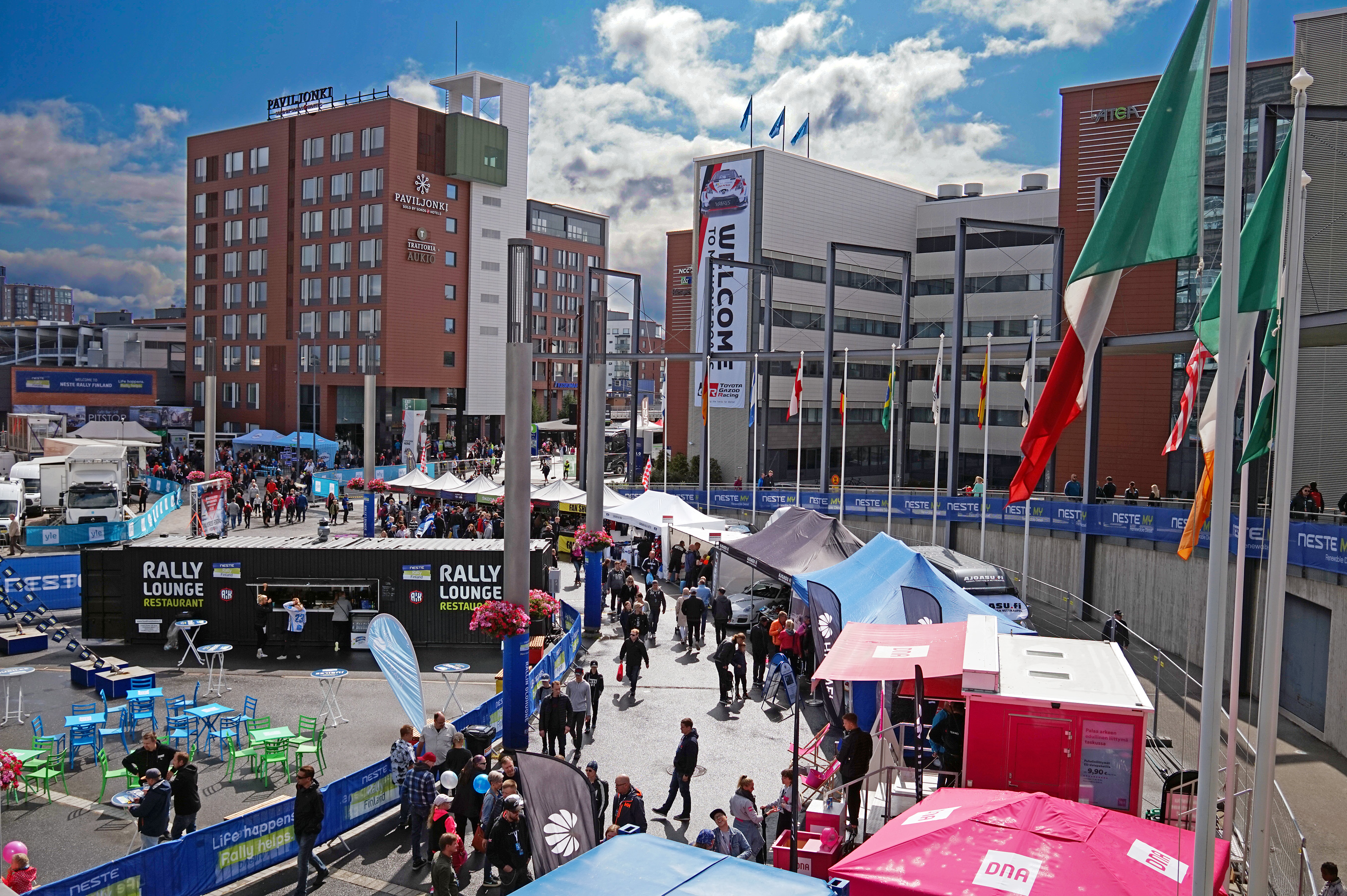 Lutakko during Neste Rally Finland in 3rd August 2019. Jyväskylä, Finland.